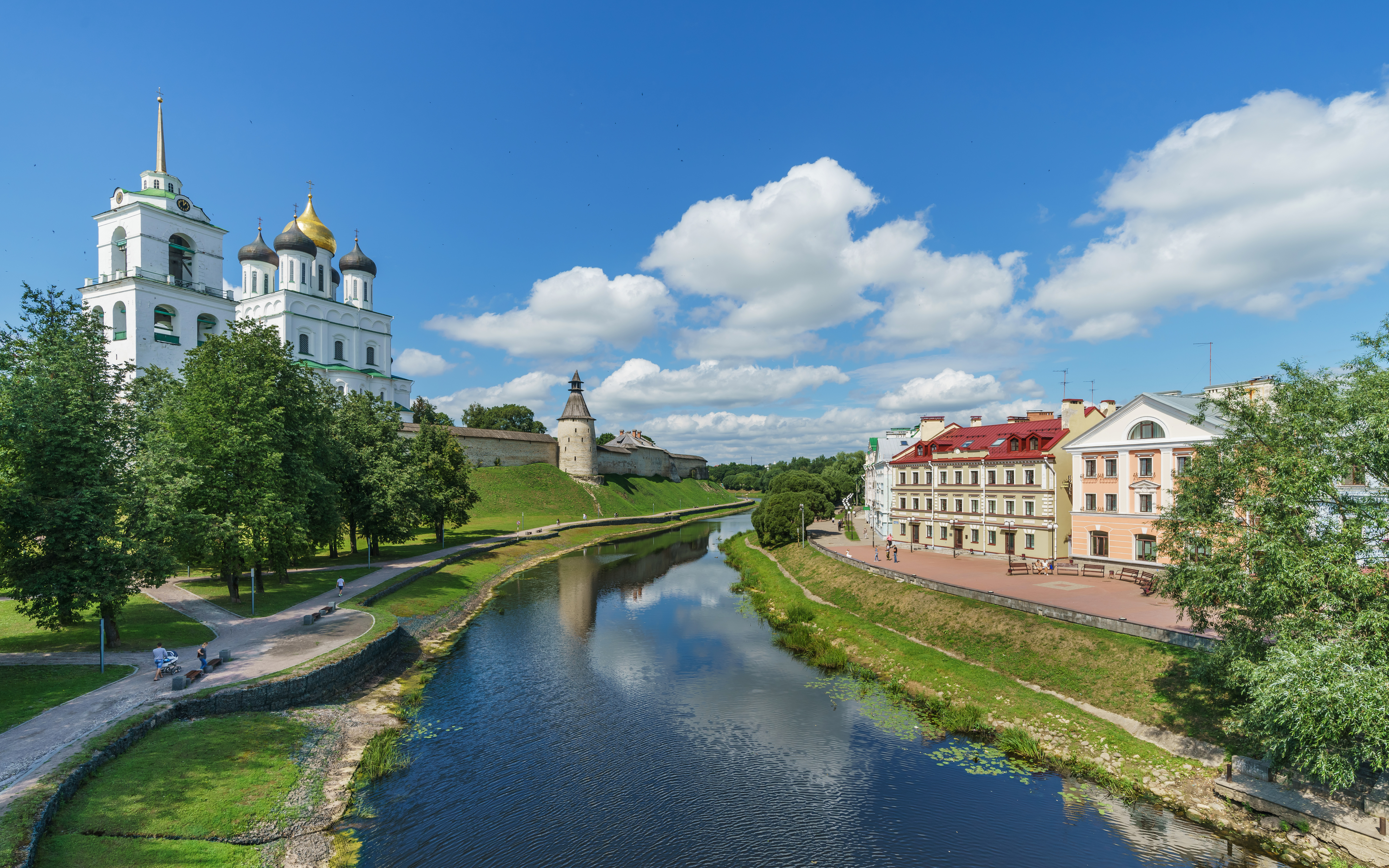 View of the Kremlin from Pskova riverside in Pskov, Russia